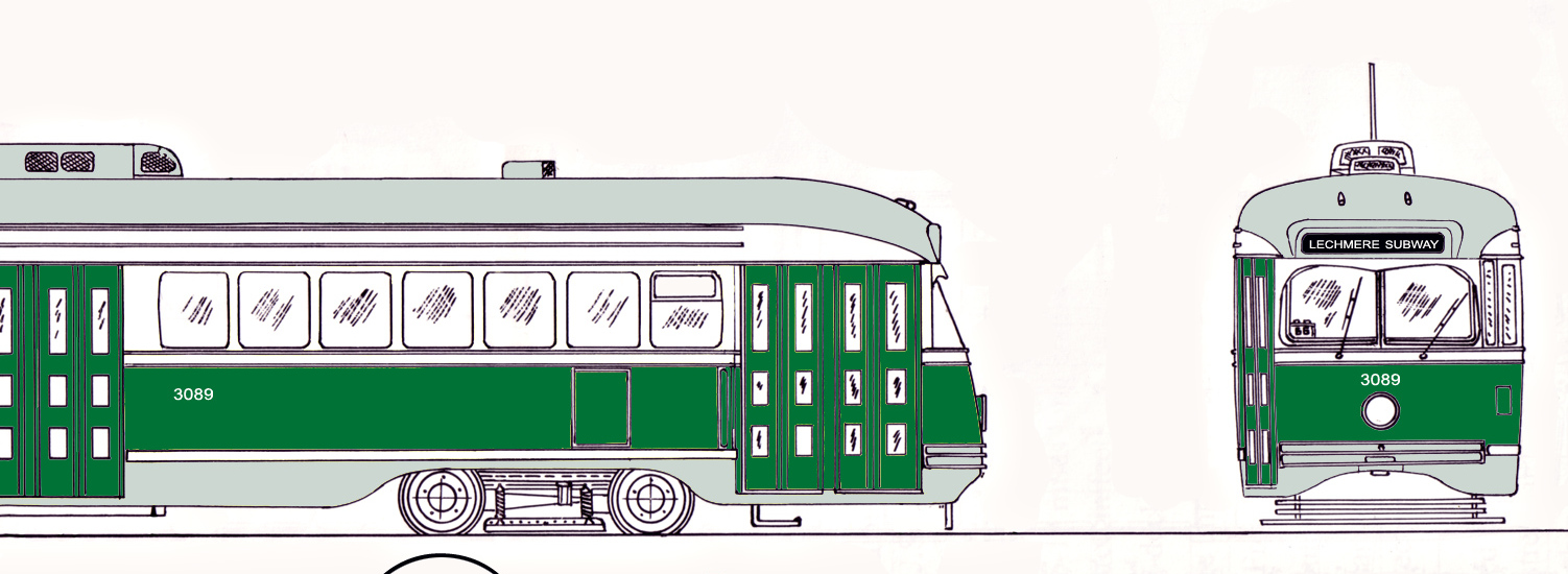 «Boston: Metropolitan Transit Authority : Color scheme» (original caption) PCC streetcar in MBTA Green Line colors, as used from 1967 (line colors introduced) to 1985 (PCCs removed from service) on the Green Line. Those on the Ashmont-Mattapan Line cars retained variants of a green color scheme until 2006.